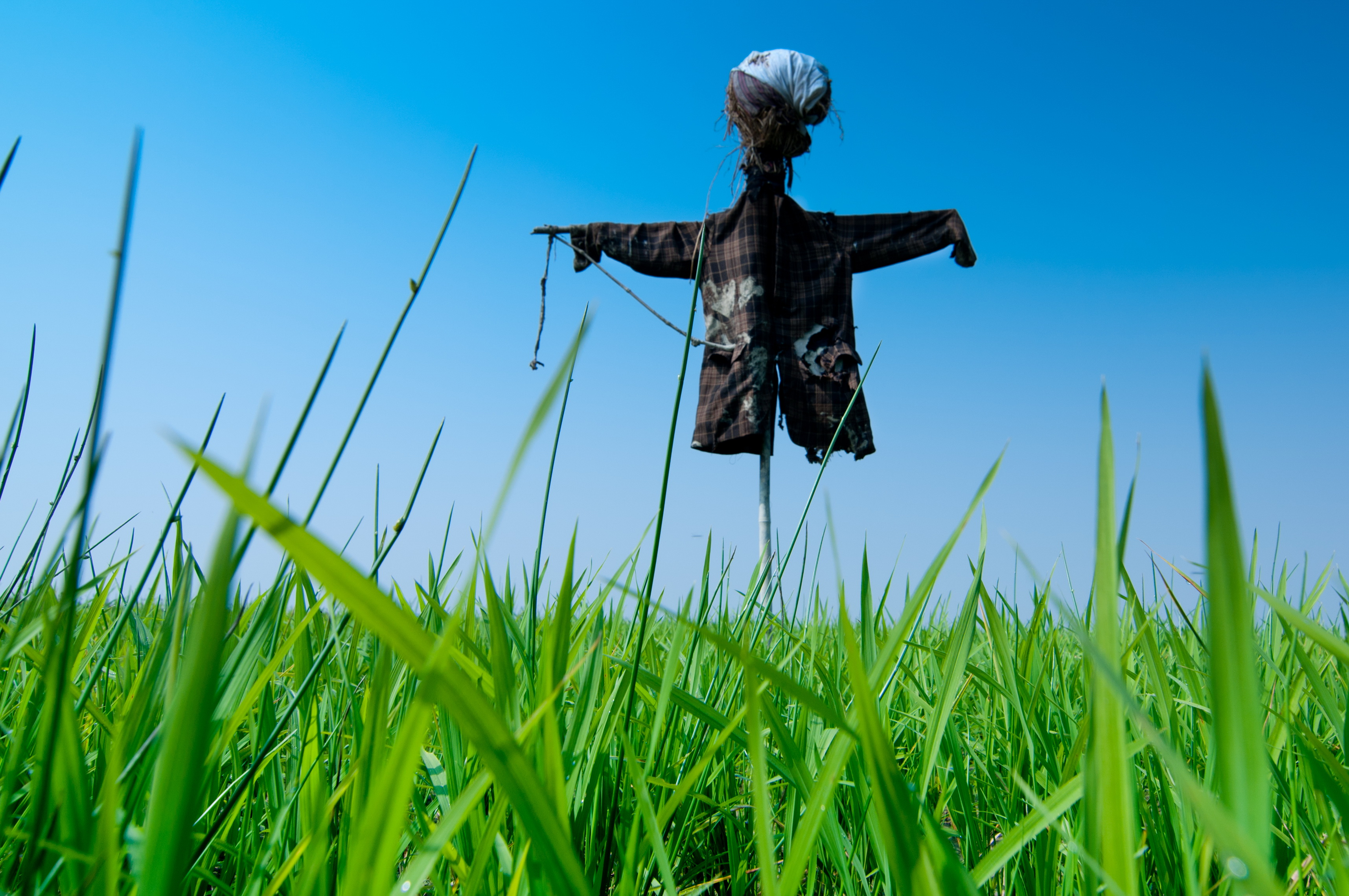 Scarecrow